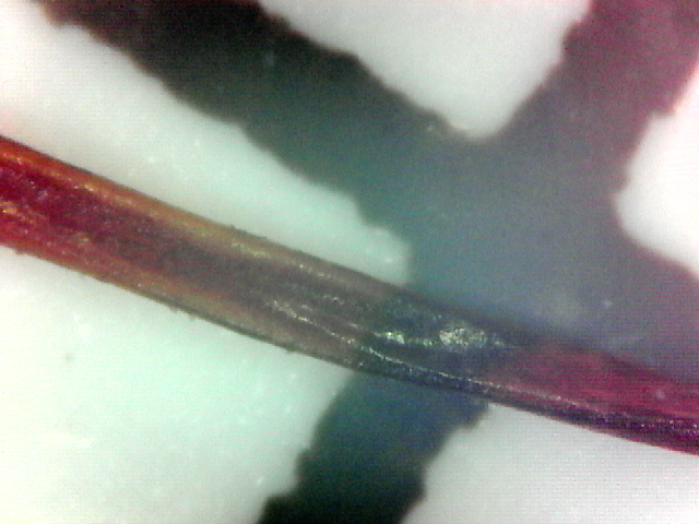 A second of human beard hair from a red beard.